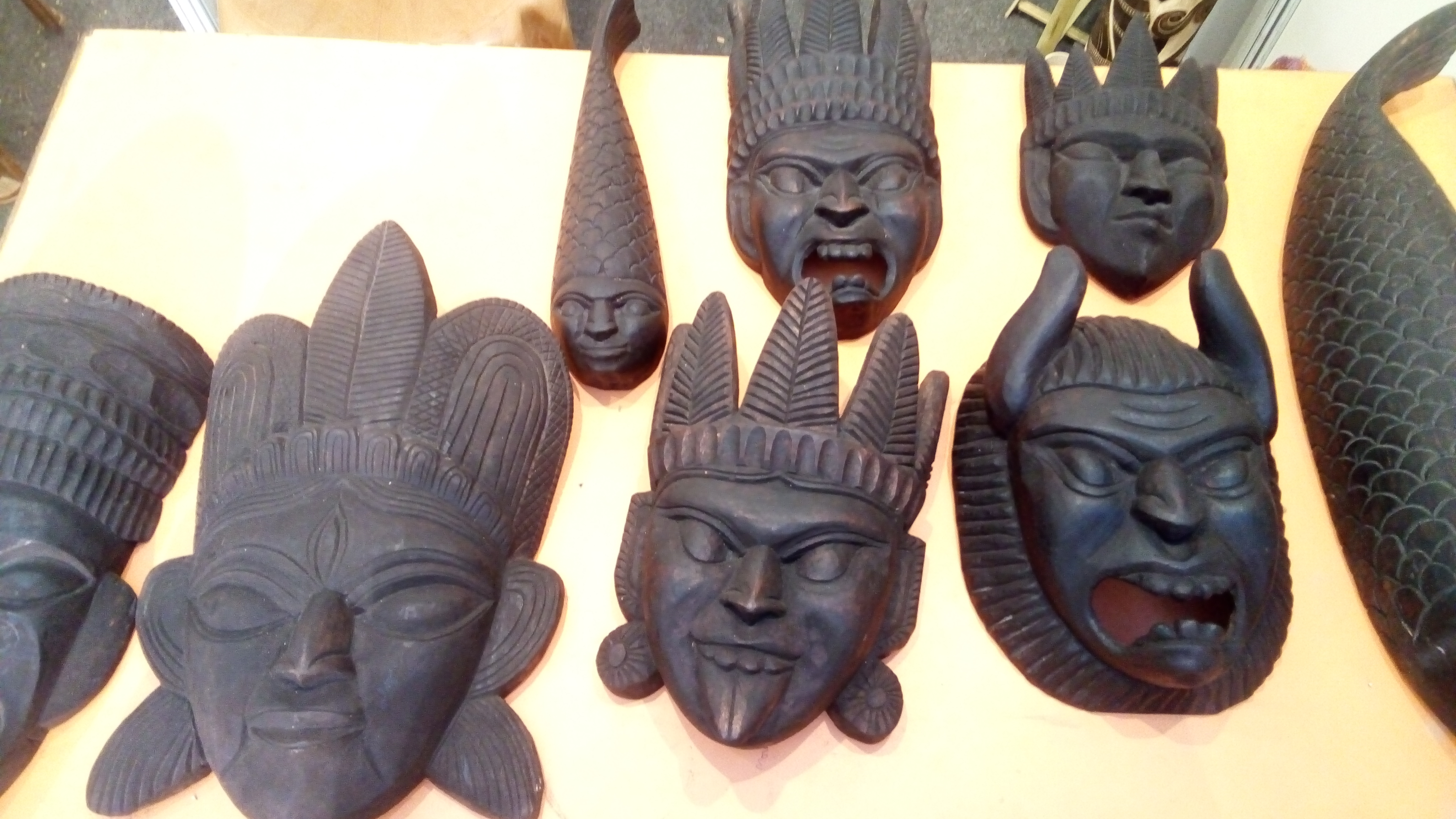 This photo has-been taken during a photo walk